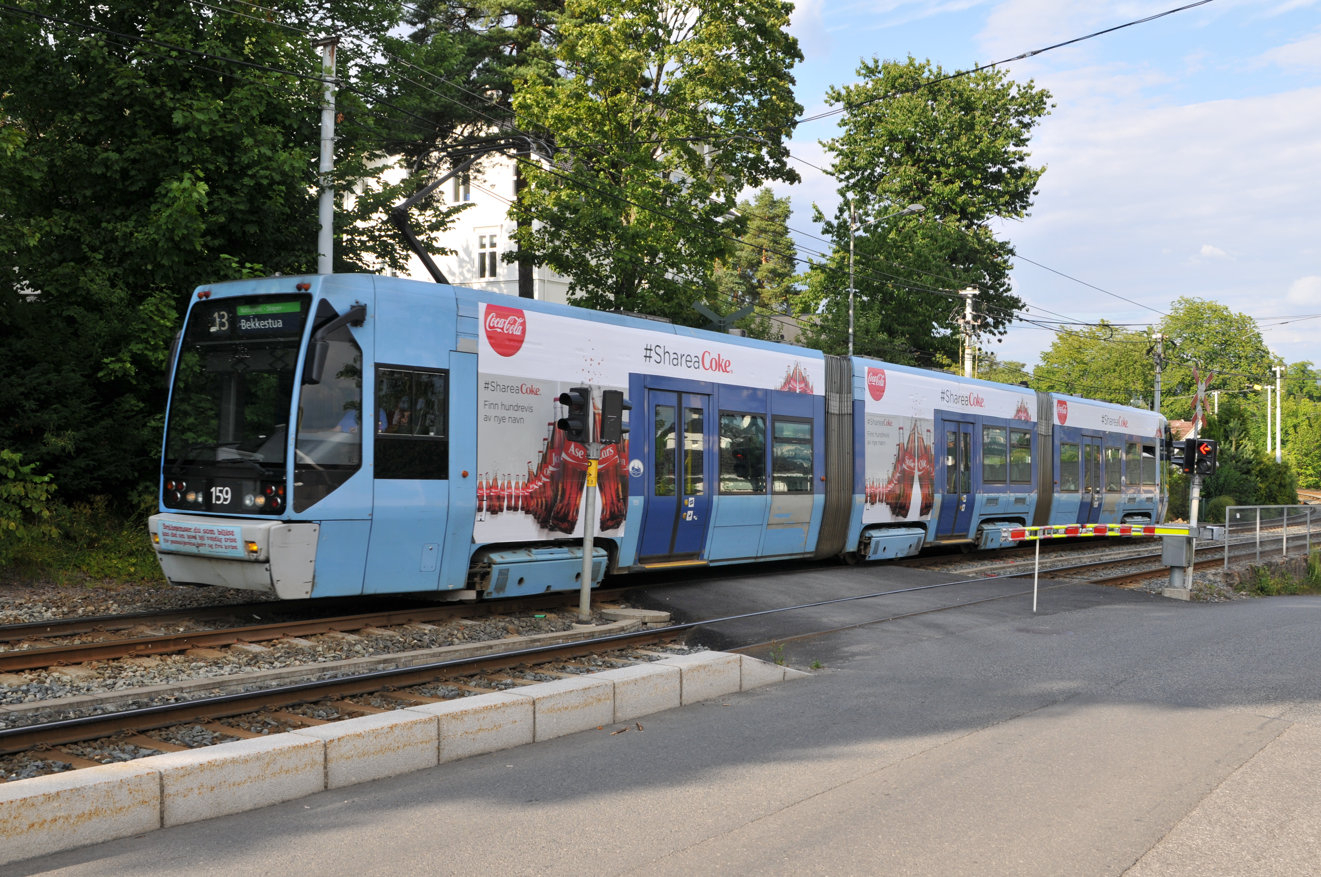 Lilleakerbanen crossing Bestum skolevei at Bestumveien